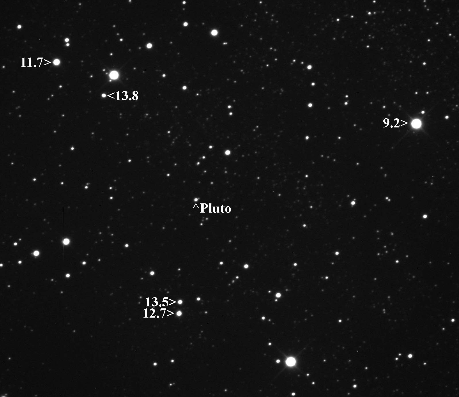 10 minute exposure of dwarf planet Pluto with a 14" telescope. Pluto is about apparent magnitude 14.1 in this image taken at 2009-10-16 12:00 UT. (Astronomical twilight ended at 11:45 UT and sunset was at 10:30 UT.) Pluto was only 67 degrees away from the Sun and had an elevation of 42 degrees. For comparison the apparent magnitude of some of the stars are labeled.